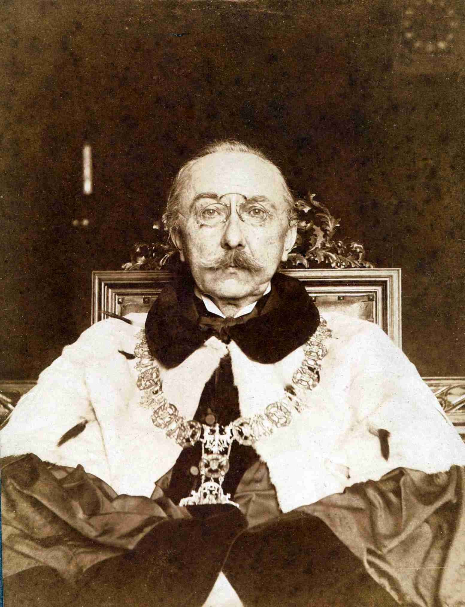 It's my own faithtul copy of photograph from August Witkowski family archive